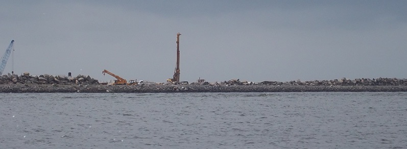 A coastal line of the newly built Eko Atlantic City.